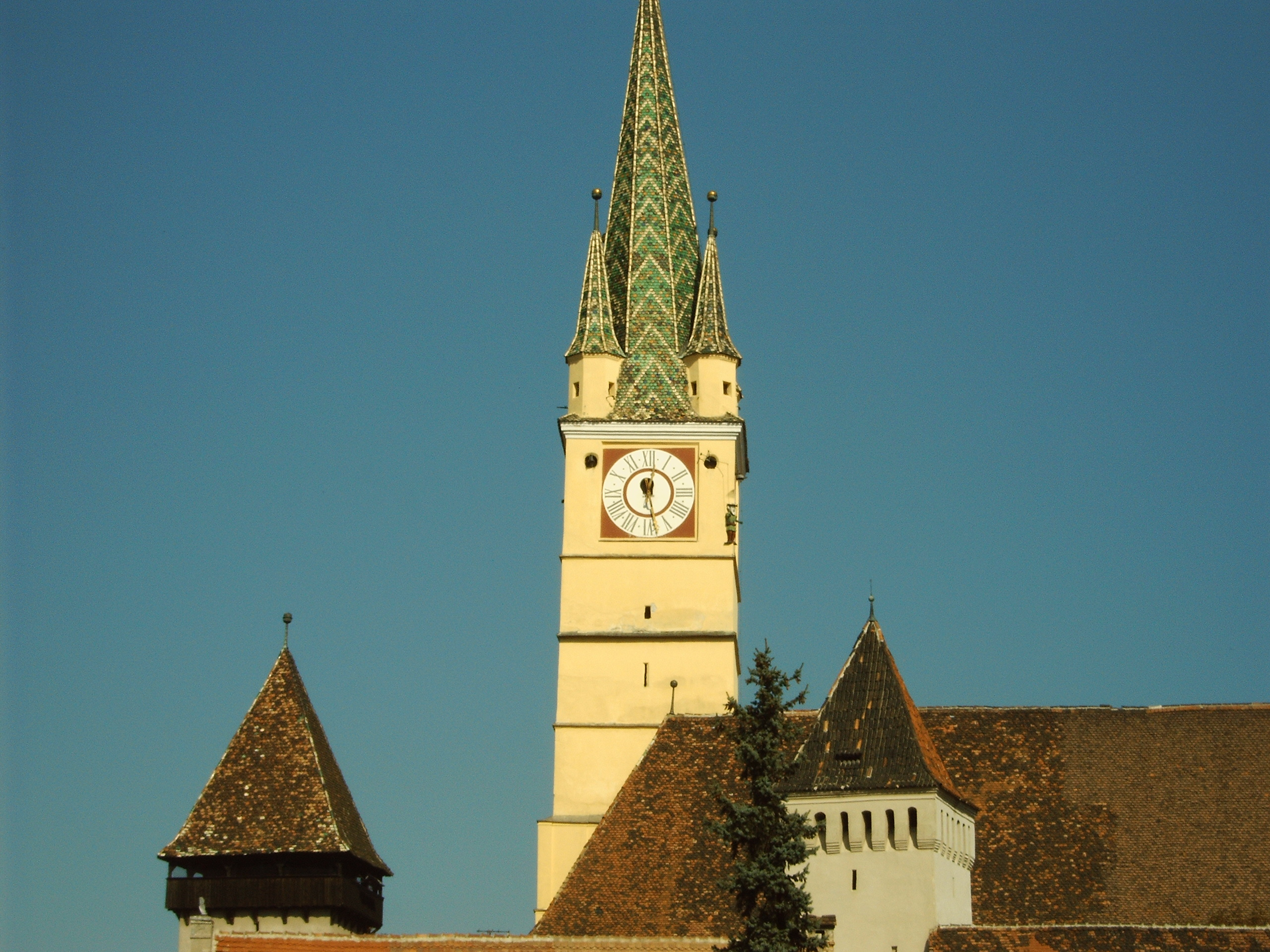 church in Medgyes, probabely in Hungary